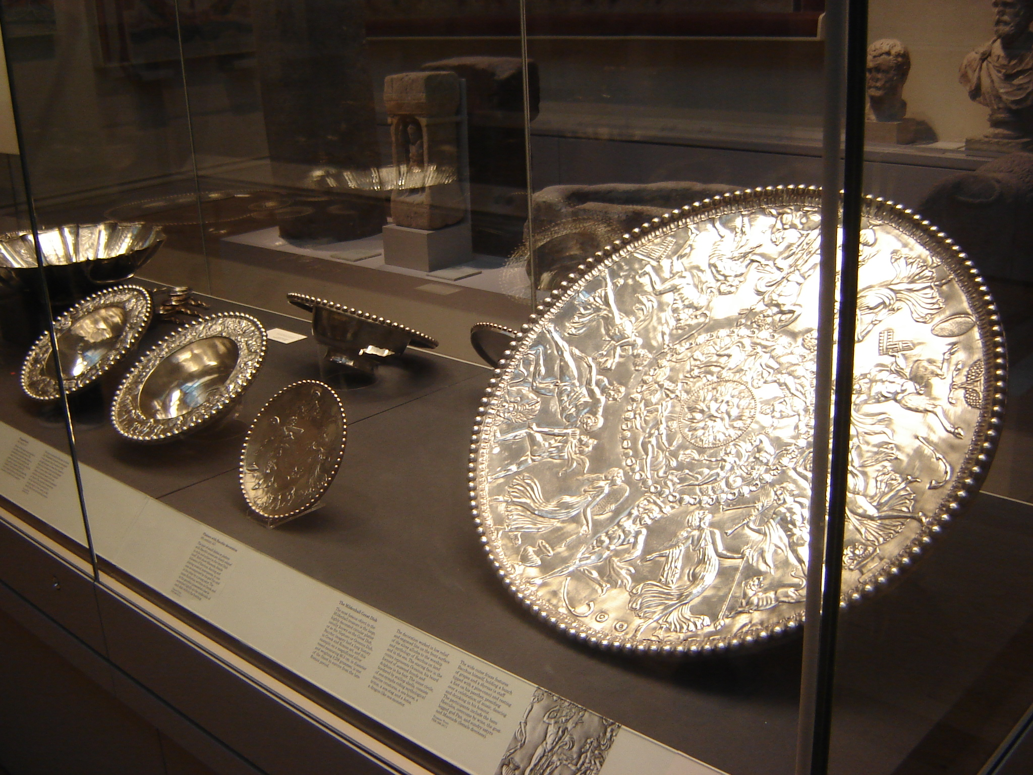 Image of the Mildenhall Treasure. Taken at the British Museum.